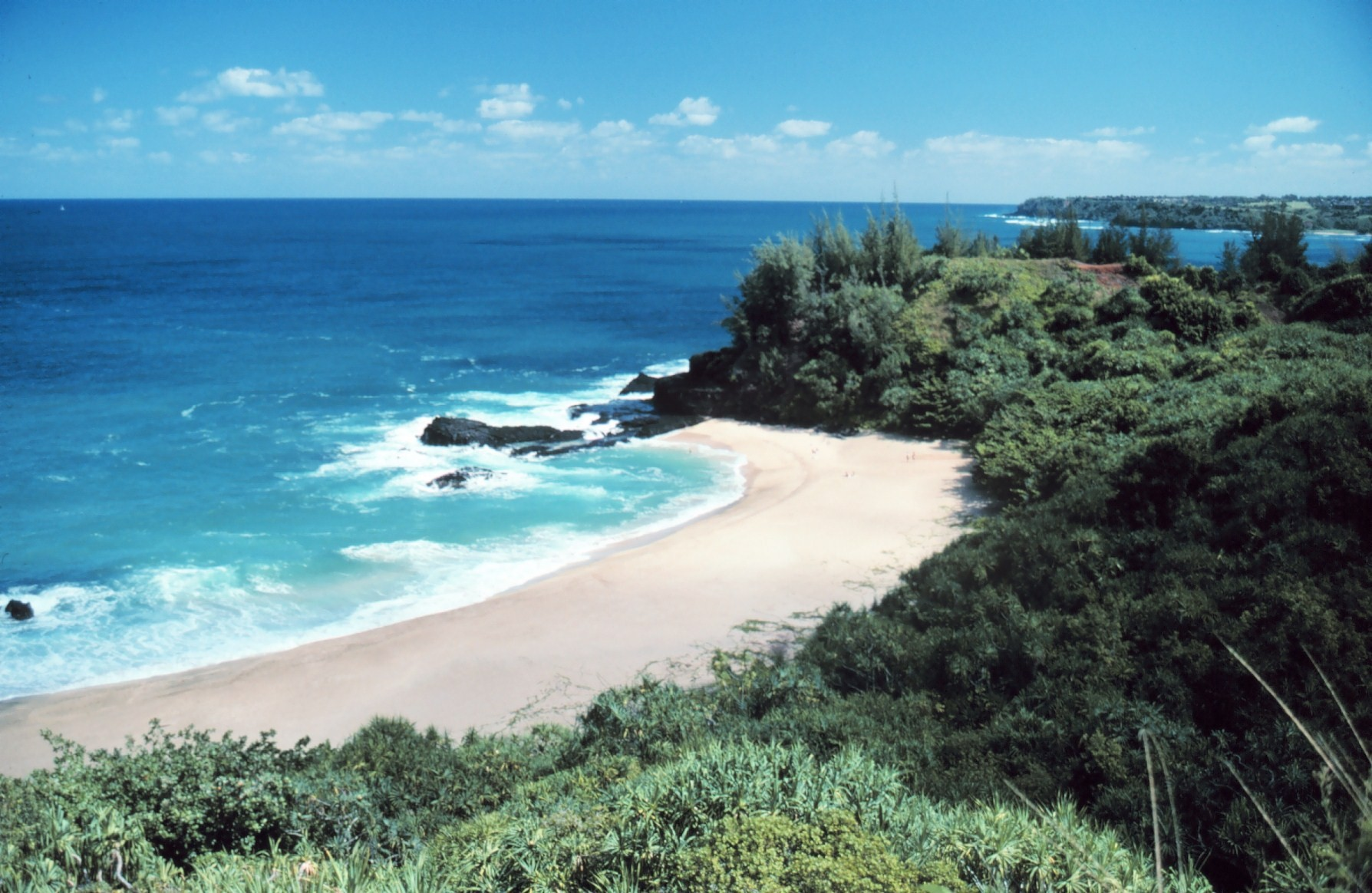 Kauai beach where "From Here to Eternity" was filmed. Hawaii, Kauai.